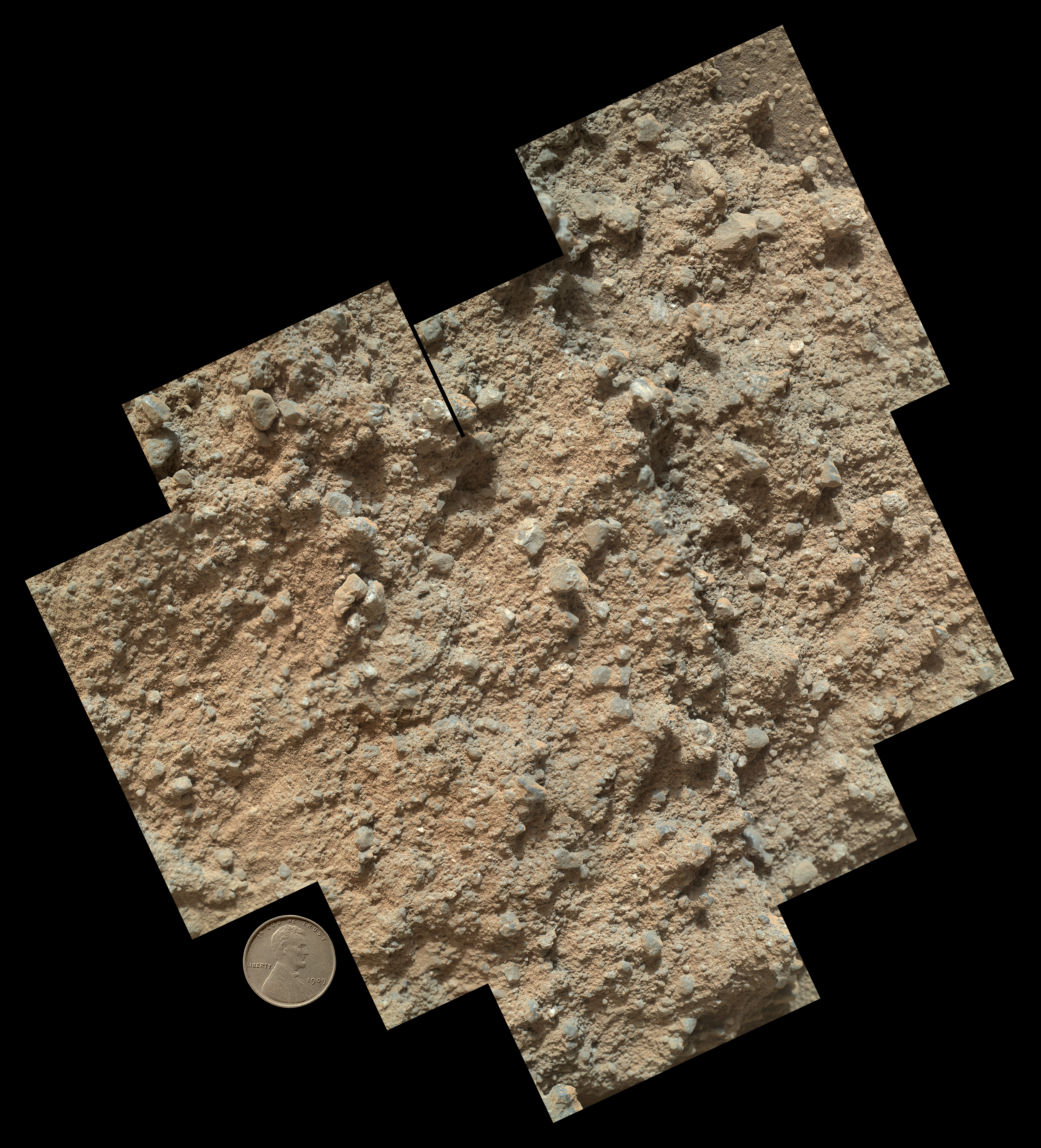 This mosaic of nine images, taken by the Mars Hand Lens Imager (MAHLI) camera on NASA's Mars rover Curiosity, shows detailed texture in a conglomerate rock bearing small pebbles and sand-size particles. The rock is at a location called "Darwin," inside Gale Crater. Exposed outcrop at this location, visible in images from the High Resolution Imaging Science Experment (HiRISE) camera on NASA's Mars Reconnaissance Orbiter